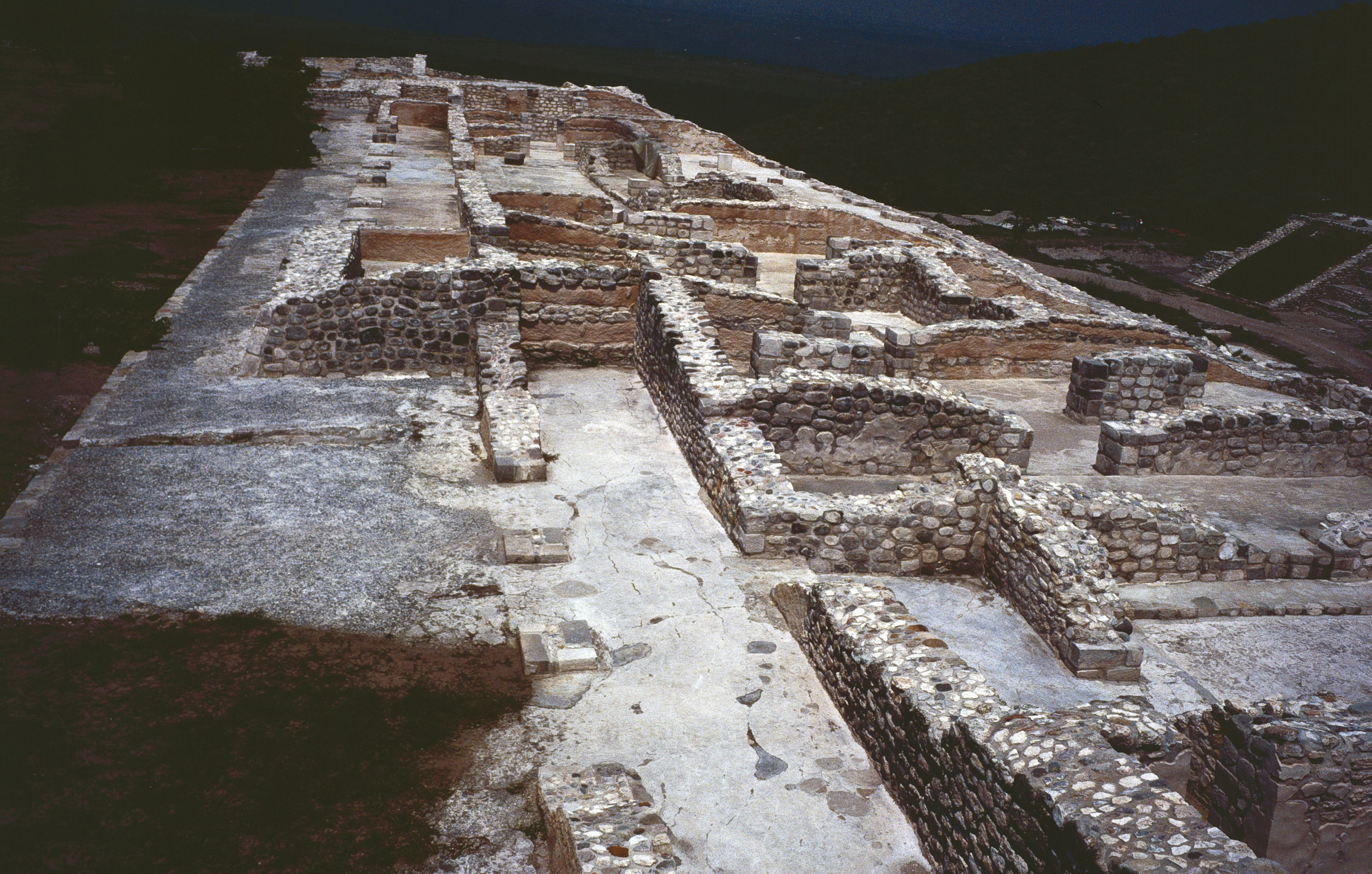 Xochicalco, Morelos, Mexico: building B